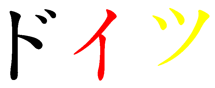 Japanese characters for Germany